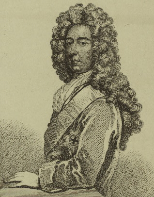 Spencer Compton (1674 – 1743)